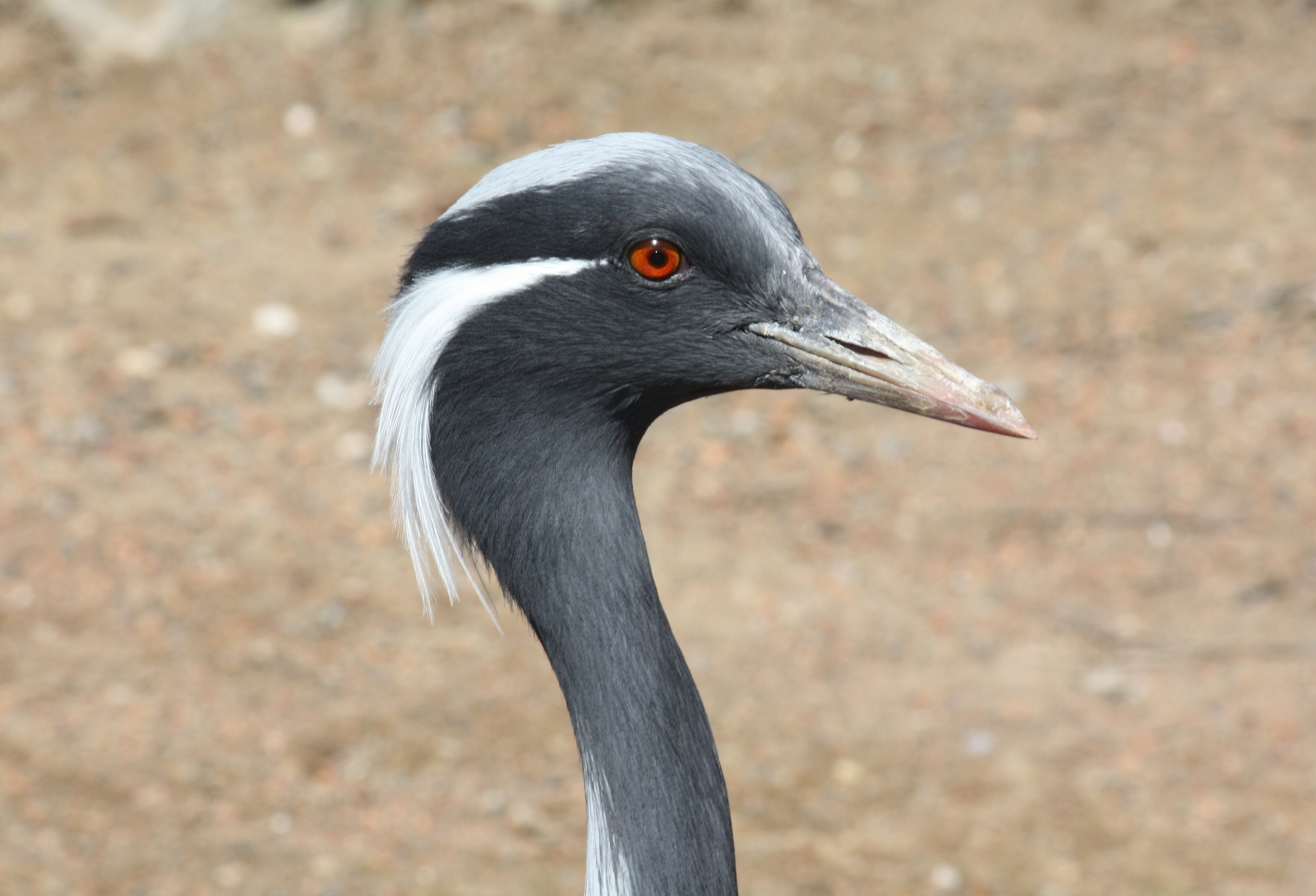 Demoiselle Crane (Anthropoides virgo) at the Louisville Zoo